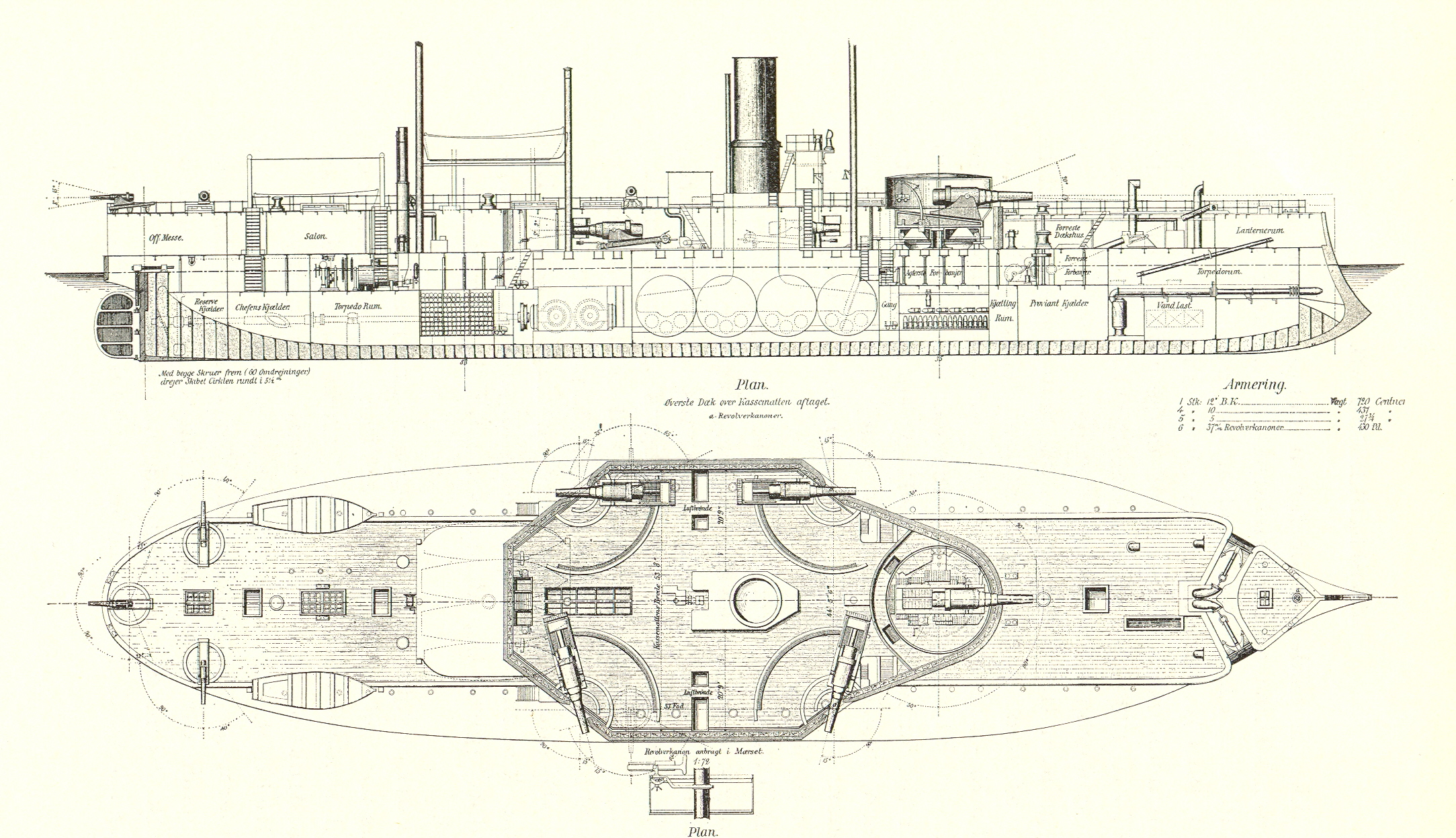 Plan of Danish Ironclad Battleship Helgoland, launched 1878 and serving 1879 - 1907.